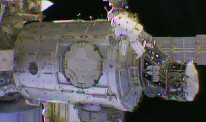 Tranquility during an EVA.